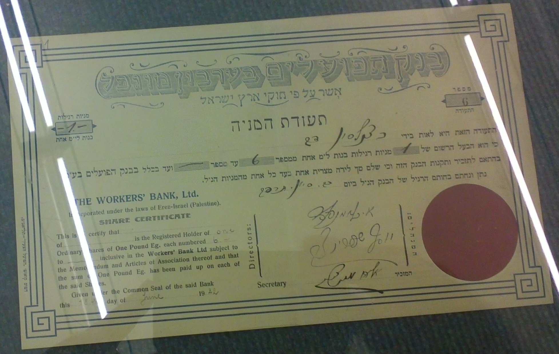 Share of Bank HaPoalim, 1922